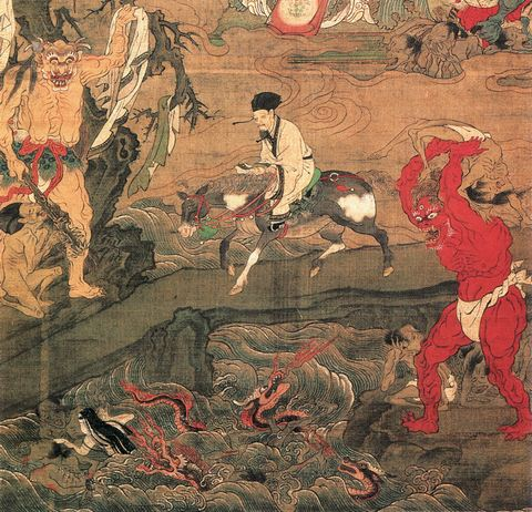 The Sanzu River from the Jūō-zu